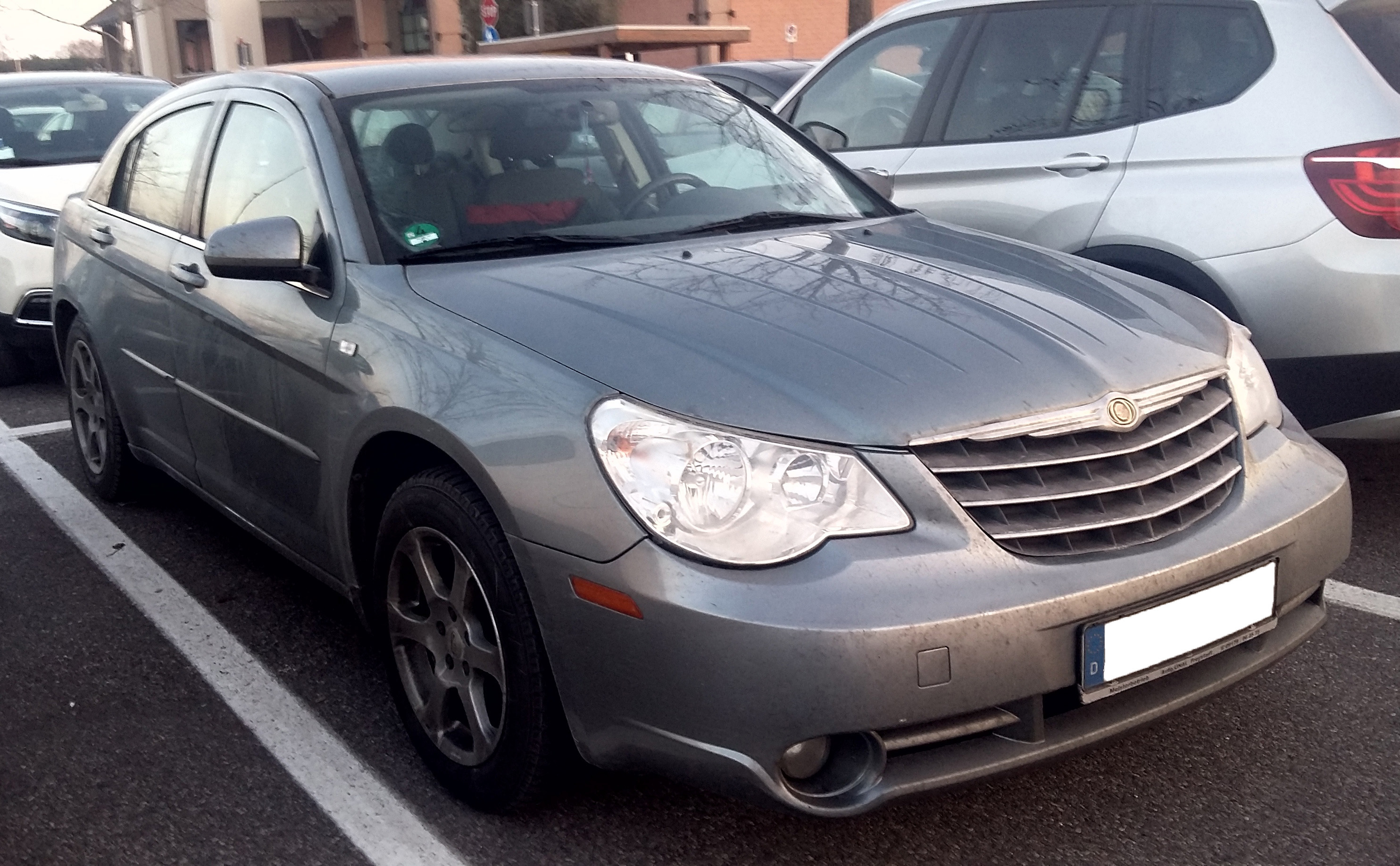 2006-2010 Chrysler Sebring JS